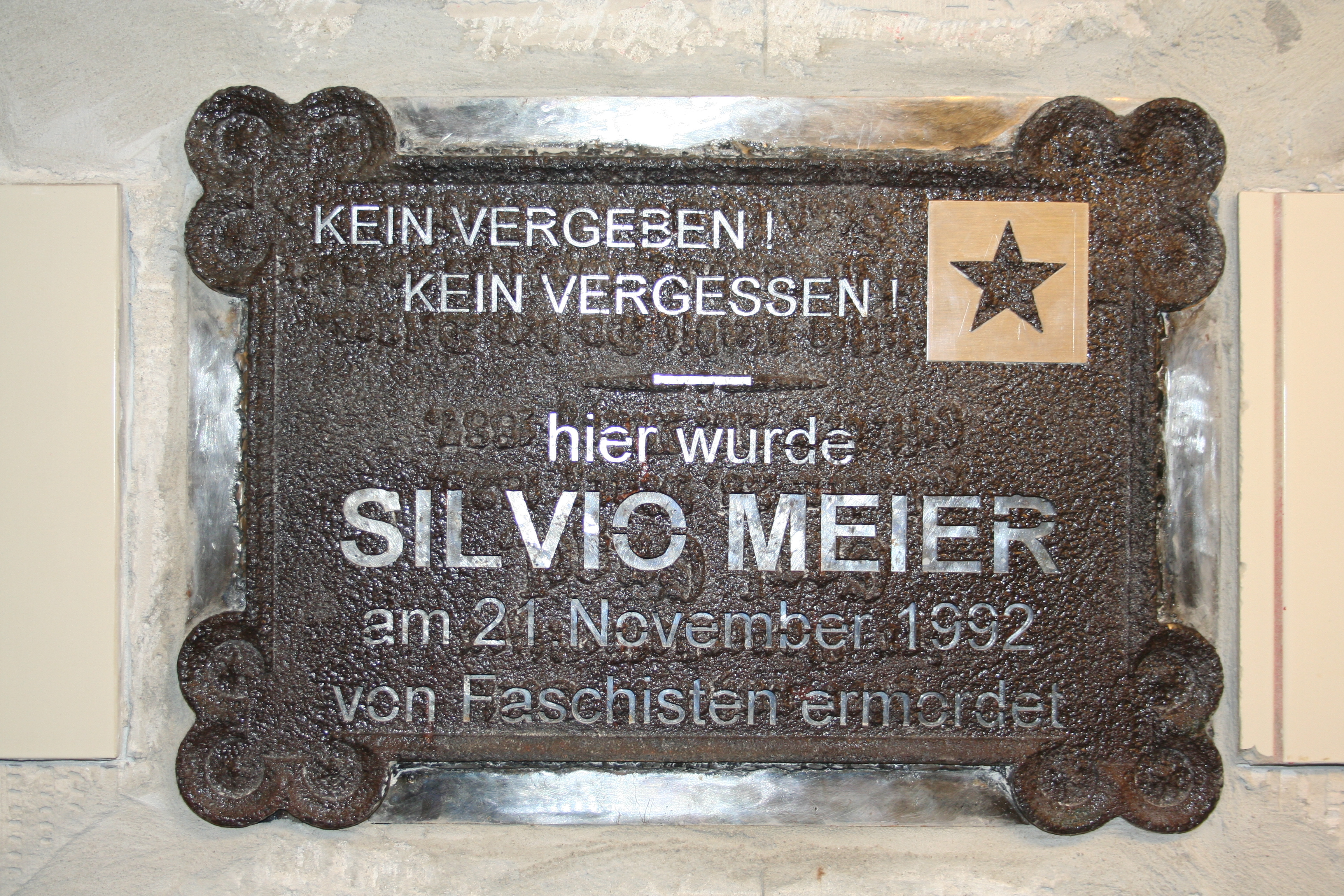 Memorial plaque from 2007 for Silvio Meier, murdered in 1992 by neonazis on subway station Samariterstraße in Berlin